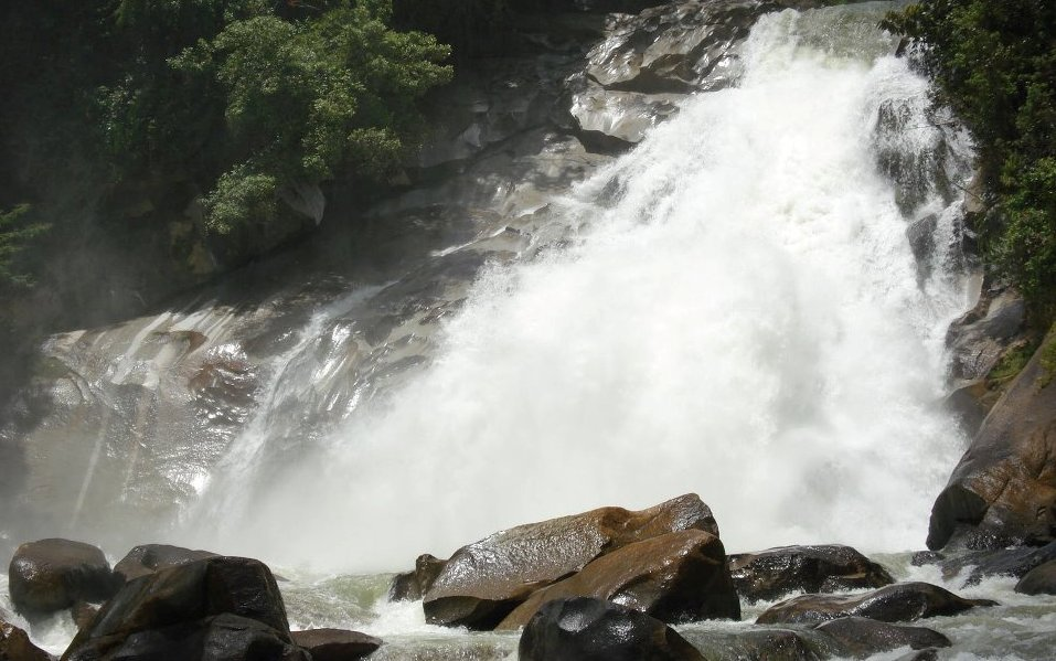 Velo de novia